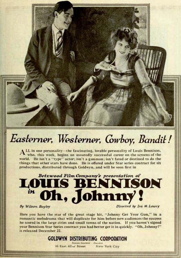 Ad for the American western comedy film Oh, Johnny! (1918) with Louis Bennison and Virginia Lee (1901 – 1996), on page 149 of the January 11, 1919 Moving Picture World.